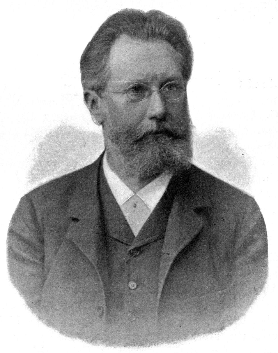 Wilhelm Exner (1840–1931), technicians and forest scientists.